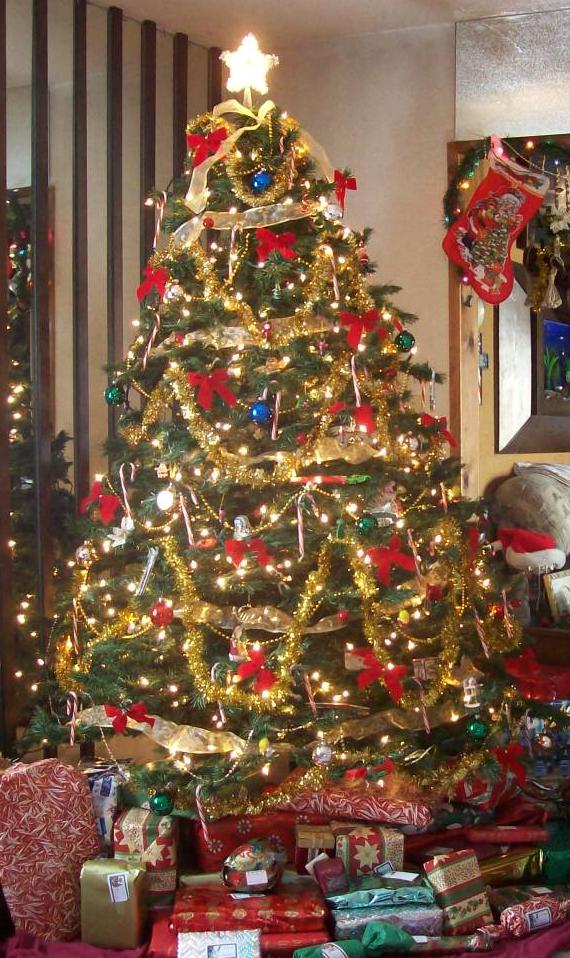 WISH YOU A VERY HAPPY CHRISTMAS